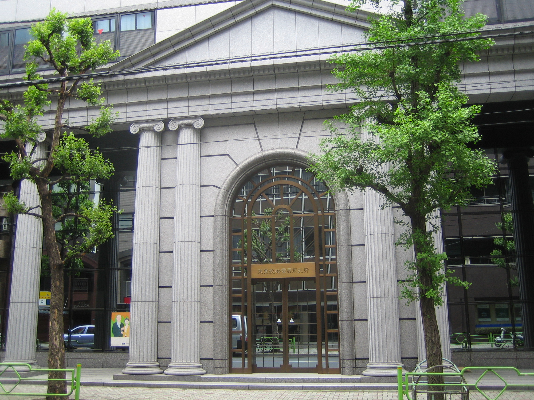 Tokyo Grain Exchange (東京穀物商品取引所), at Nihonbashi-Kakigaracho, Chuo, Tokyo, Japan